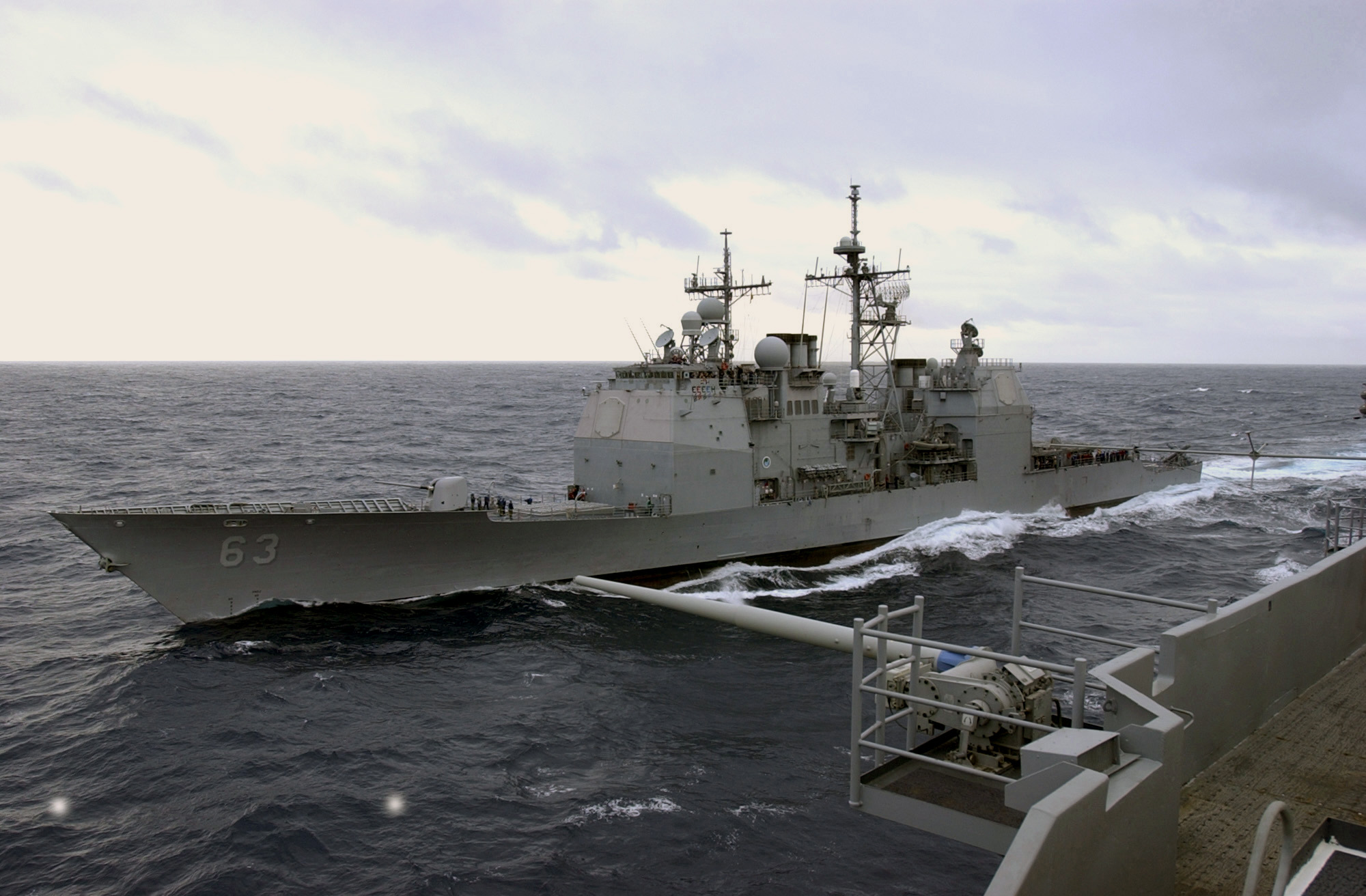 Aboard USS Kitty Hawk (CV 63) Oct. 15, 2003 -- USS Cowpens (CG 63) pulls alongside USS Kitty Hawk (CV 63) for replenishment-at-sea evolutions. The underway replenishment involves the on and off loading of materials while maneuvering. Kitty Hawk recently completed an extensive five-month maintenance period in Yokosuka, Japan. U.S. Navy photo by Photographer’s Mate 3rd Class Jason T. Poplin. (RELEASED)